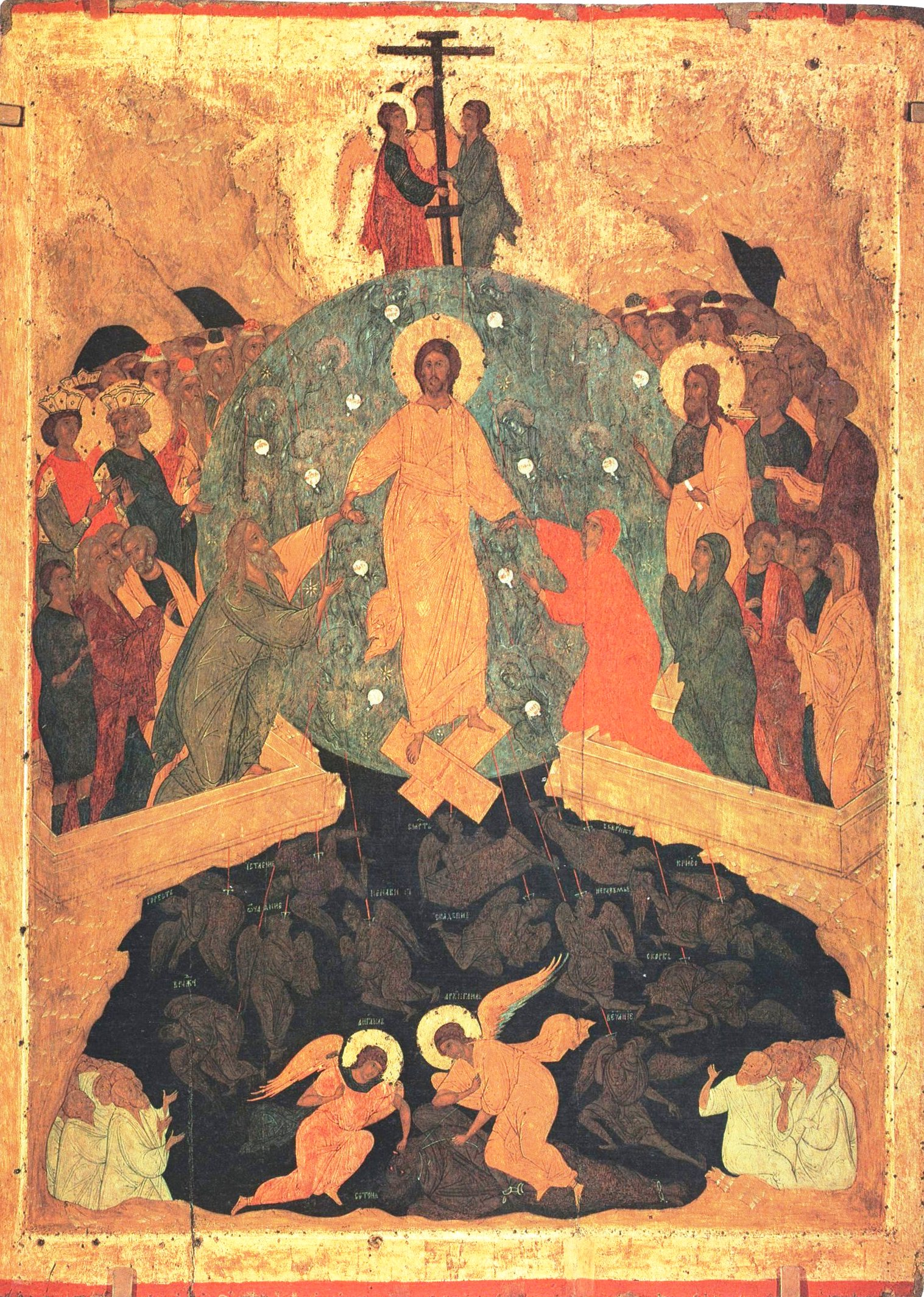 Descent into Hell, icon from the Ferapontov Monastery Tempera on wood, 312x105x4, State Russian Museum, Sankt Petersburg